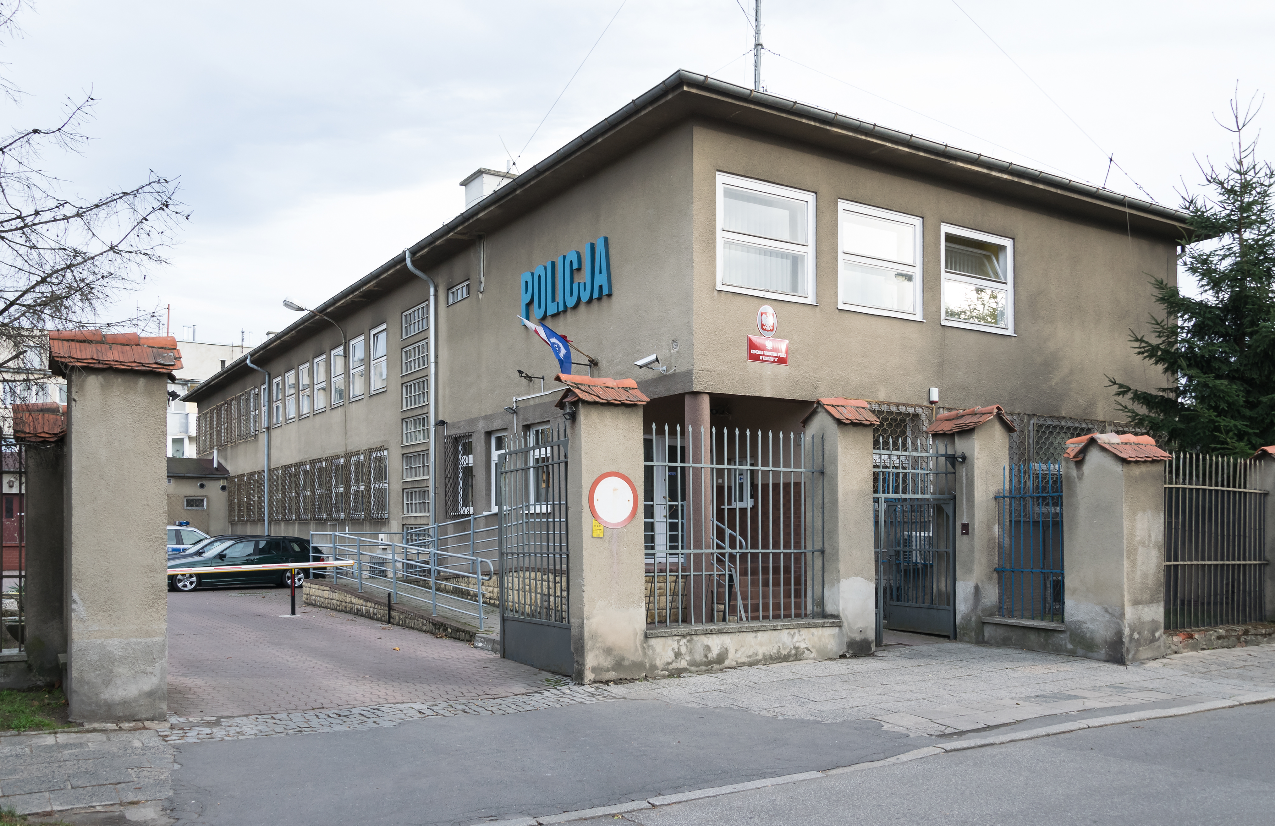 Police Station in Kłodzko